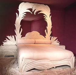 The Palm Leaf Bed by Phyllis Morris created in the 1980s.